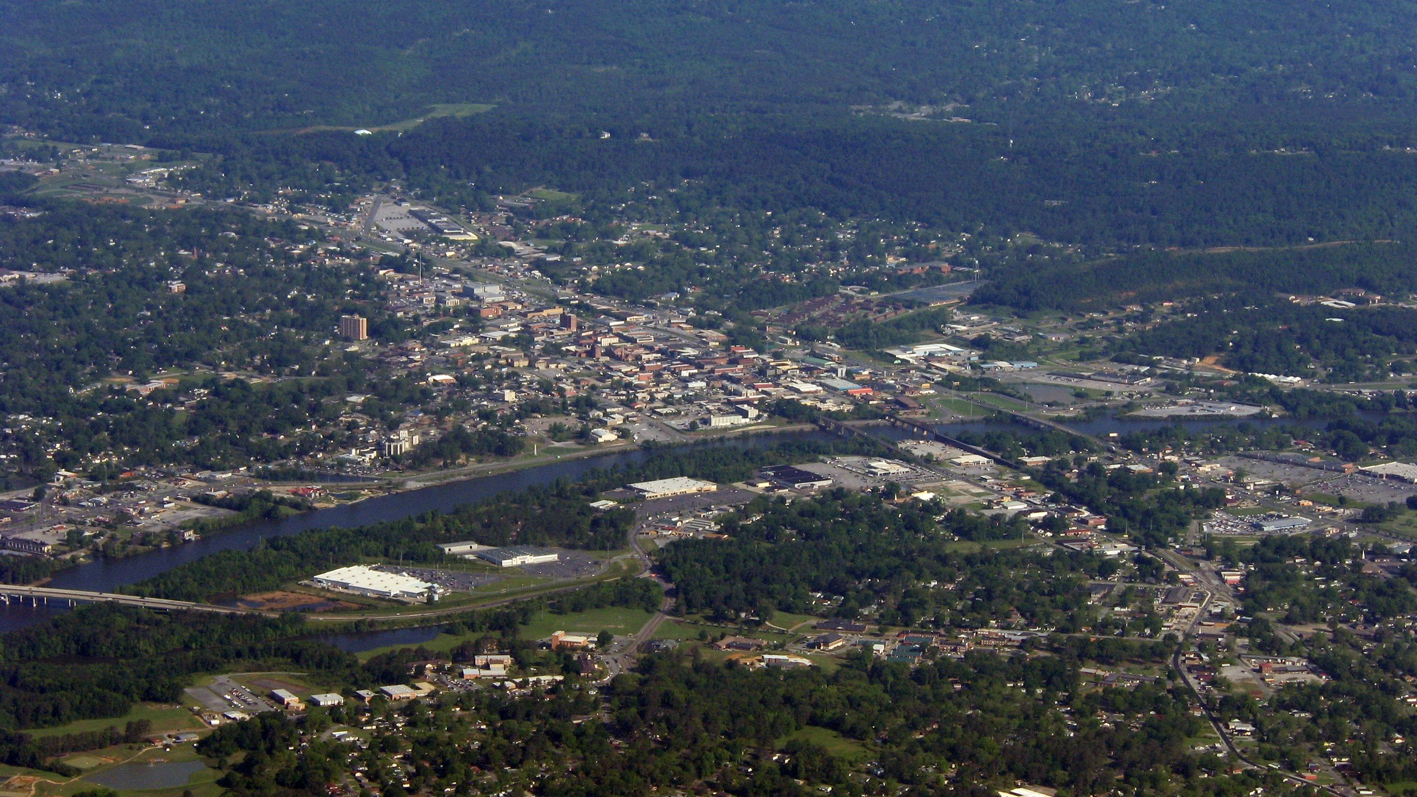 An aerial photo of Gadsden, Alabama, United States.